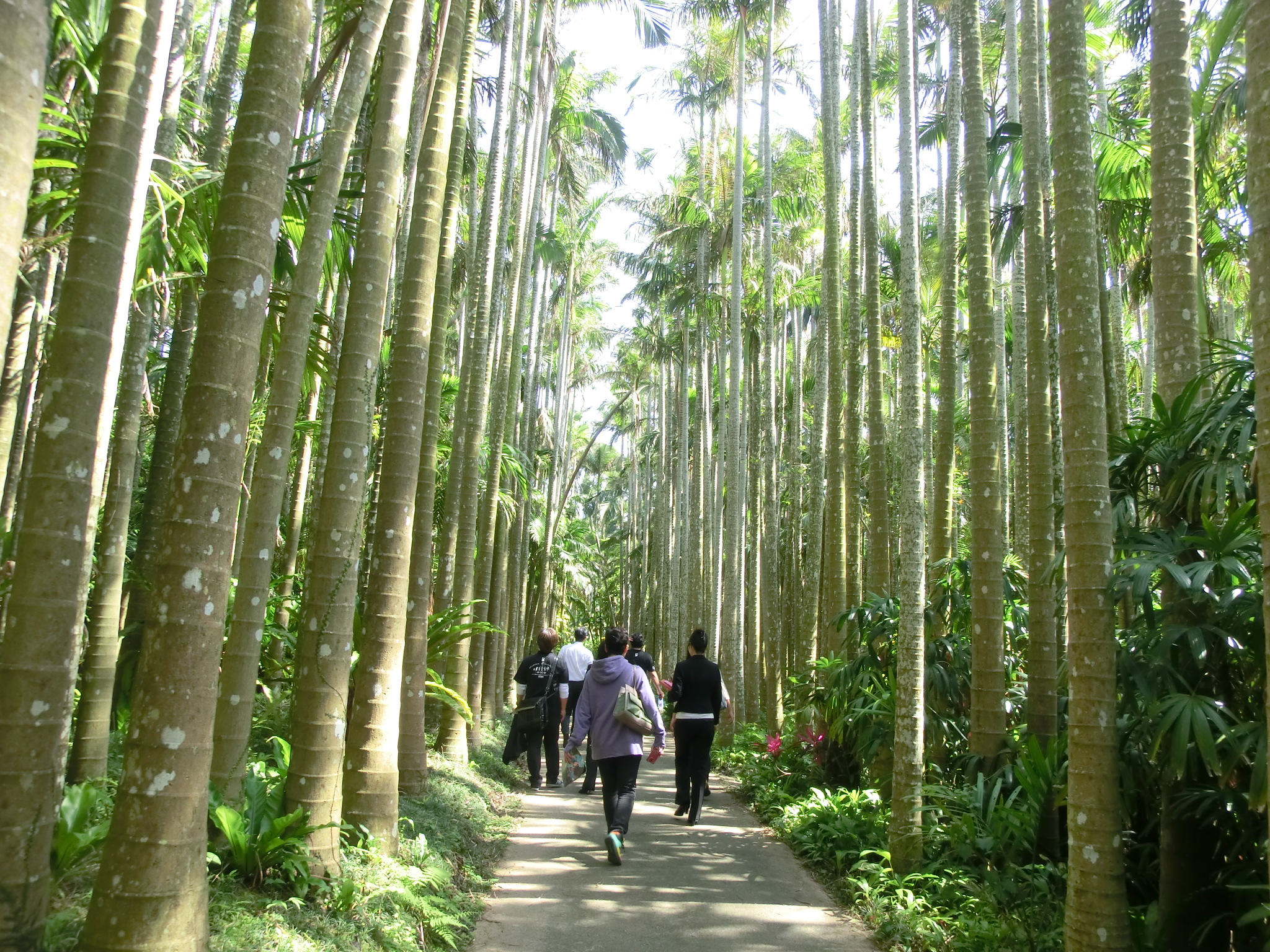 Archontophoenix alexandrae lined road in the Southeast Botanical Gardens, Okinawa, Japan.